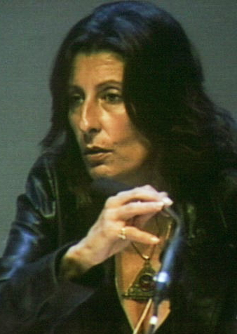 Roberta Bosco portrait